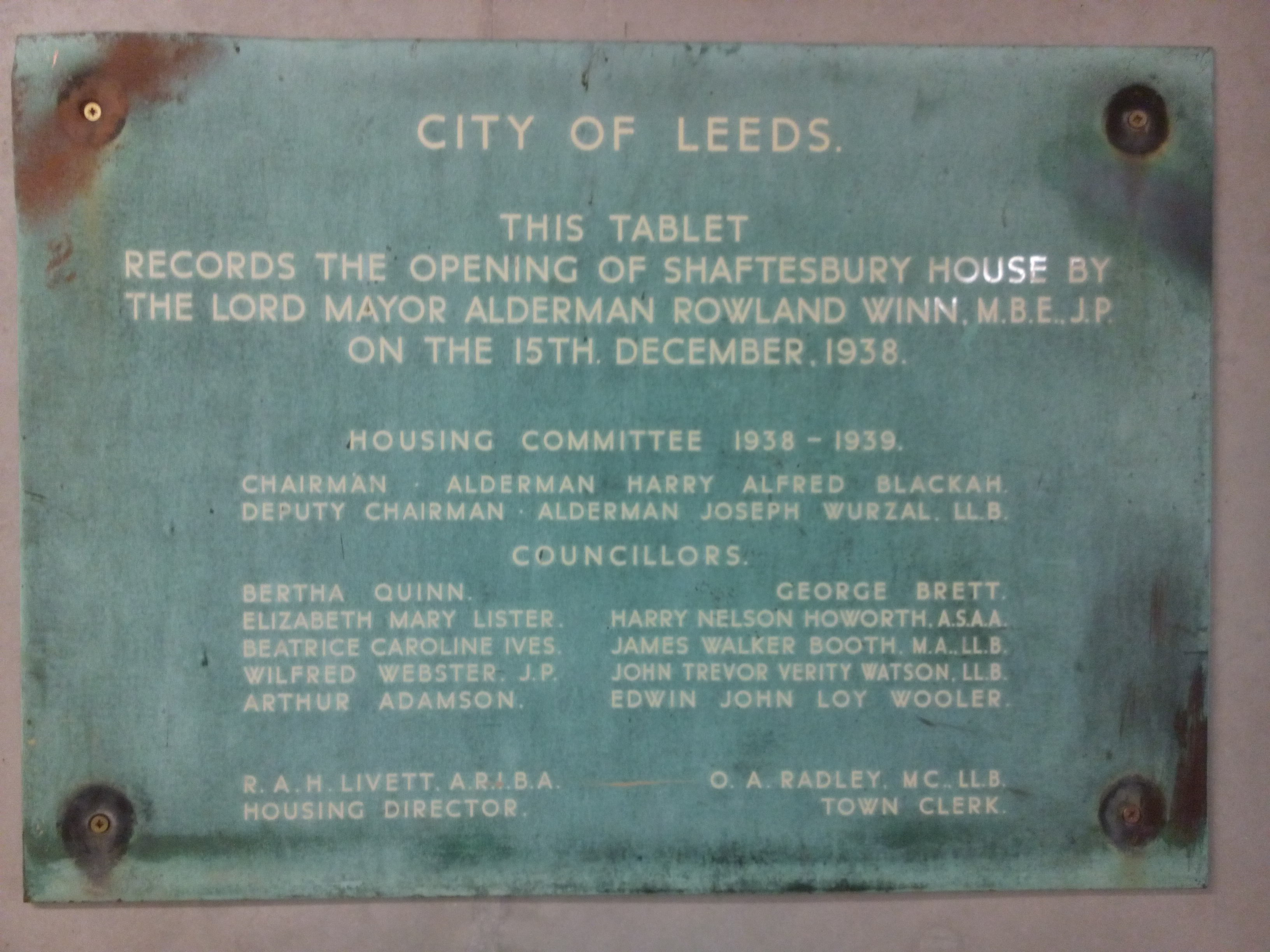 A plaque commemorating the opening of Shaftesbury House, Leeds, December 15th 1938. Now mounted in the renovated Shaftesbury House, renamed as Greenhouse.